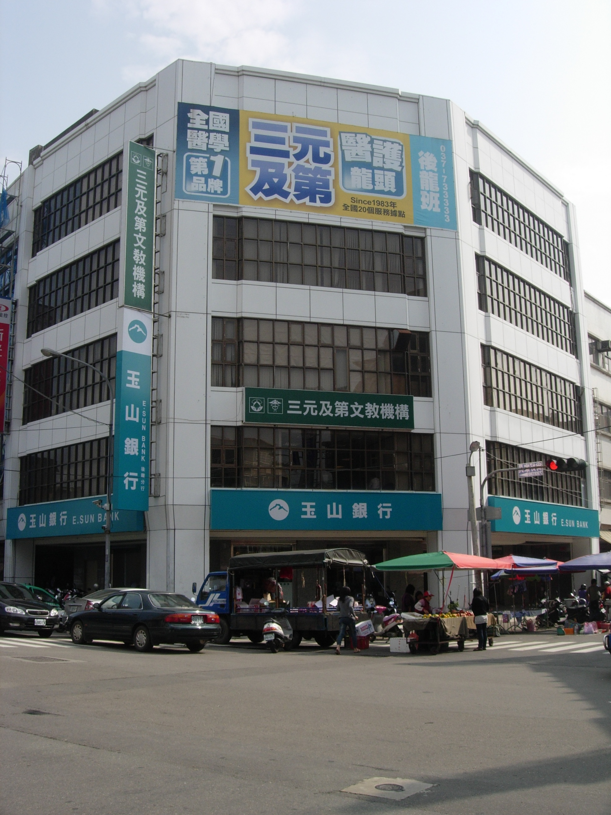 Houlung Commercial Building.中文（台灣）: 後龍市區商業大樓。